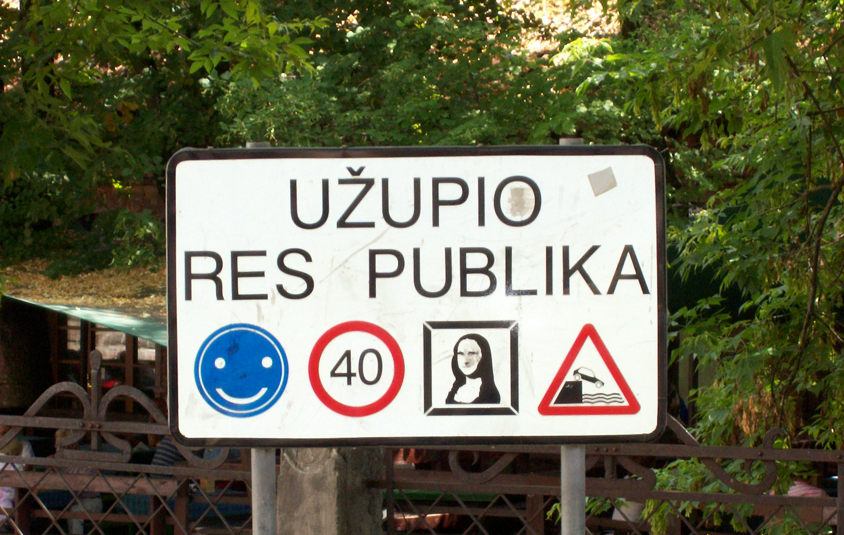 Border sign the "Uzupio Republic" micronation in Vilnius, Lithuania